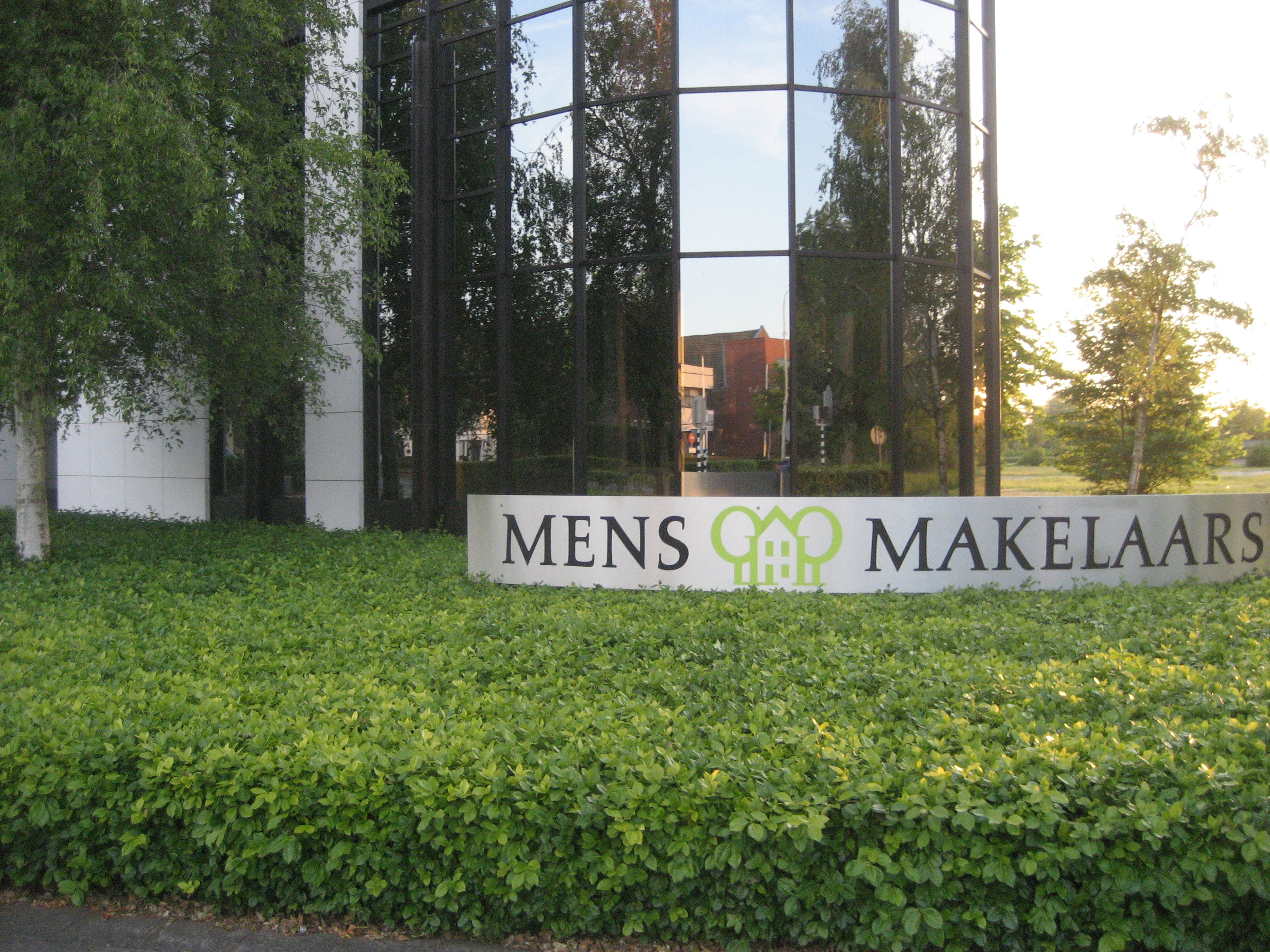 Mens Real estate agents, Heerweg 326, 2161 BV Lisse (the Netherlands)